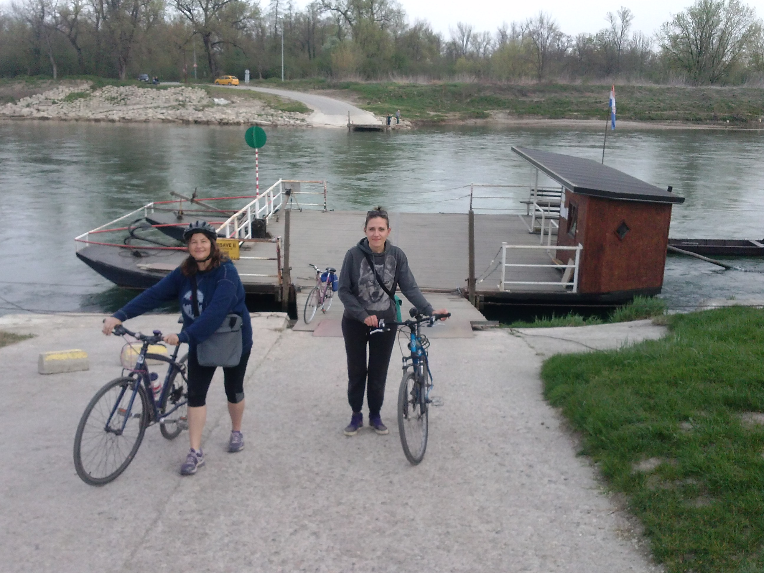 Medsave cable ferry across the Sava river in Croatia with some passengers, April 2016.